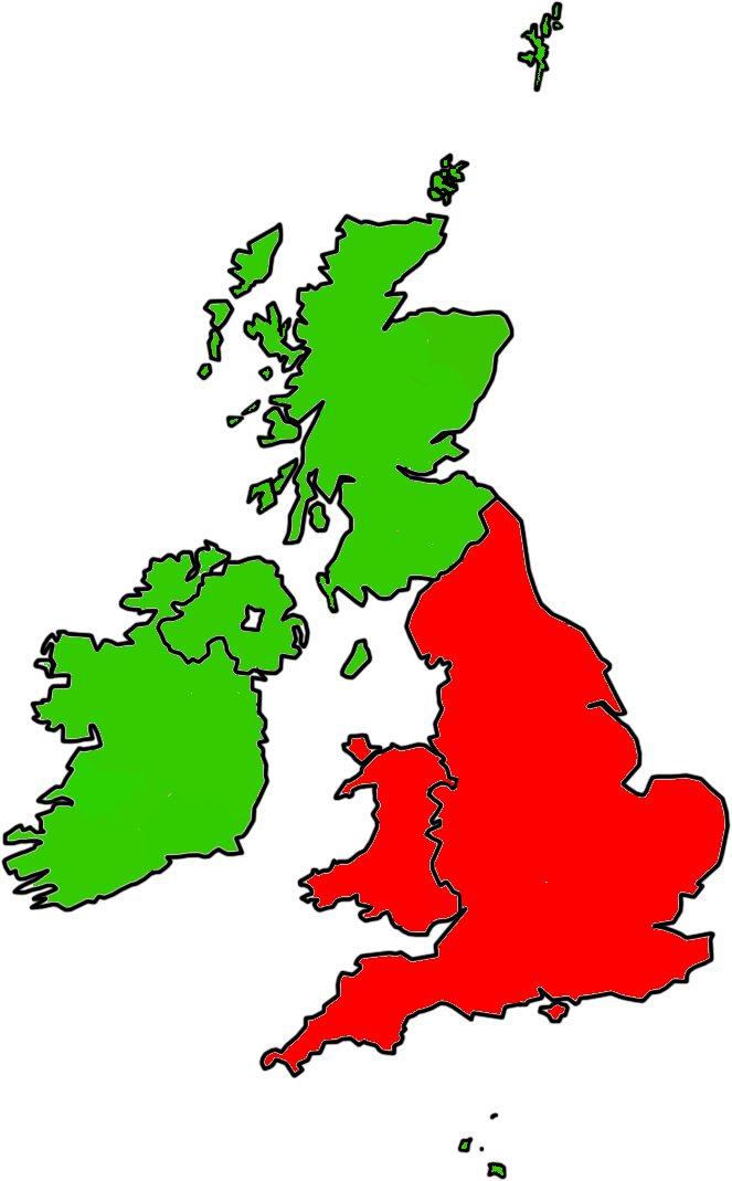 Map showing England and Wales (together) within the British Isles, designed for use at very low resolutions